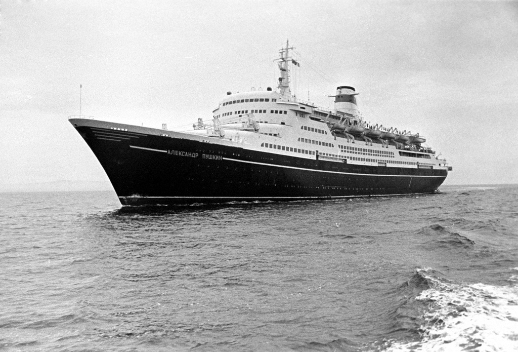 “Soviet motor-ship "Alexander Pushkin"”. Soviet motor-ship "Alexander Pushkin".